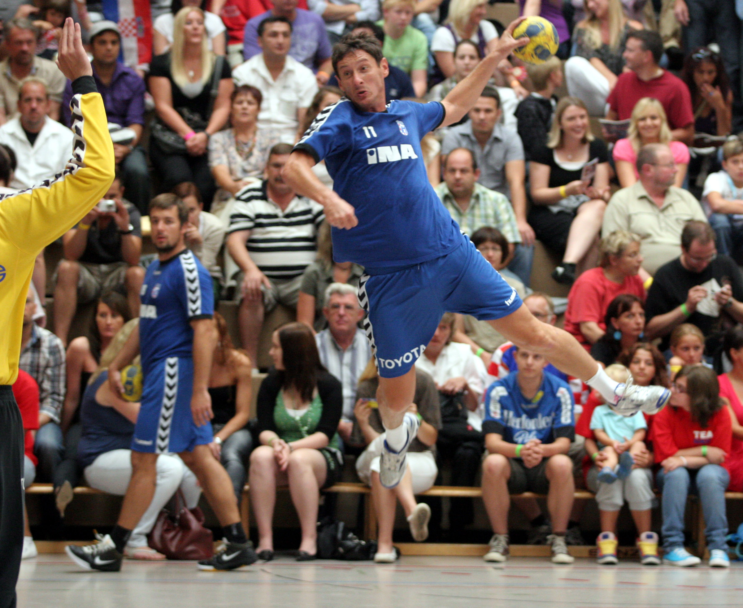 Mirza Džomba, handball player from Croatia, playing for RK Zagreb, on August 22nd, 2009 in Ehingen (Germany), during the Schlecker Cup 2009.